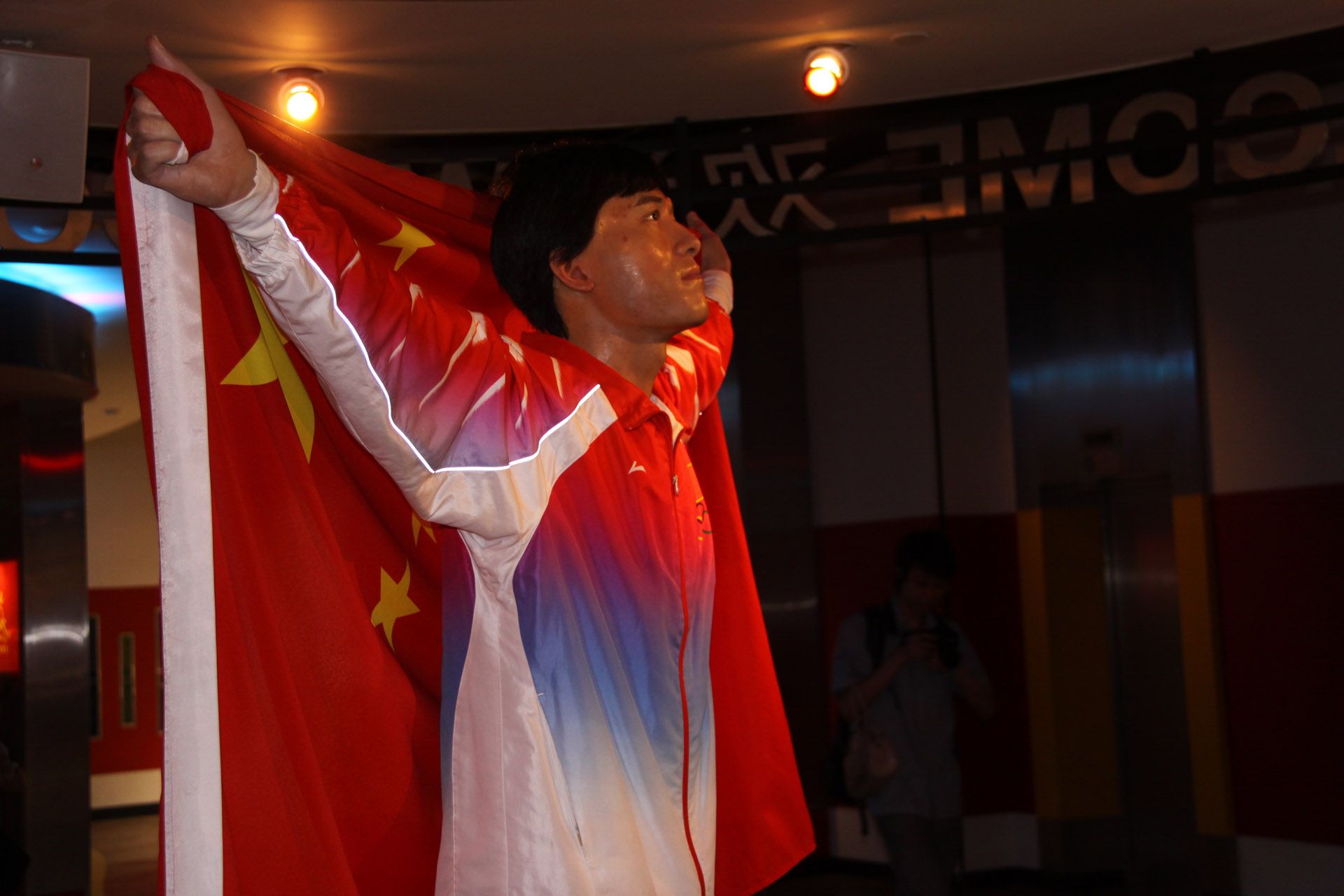 Madame Tussauds Shanghai